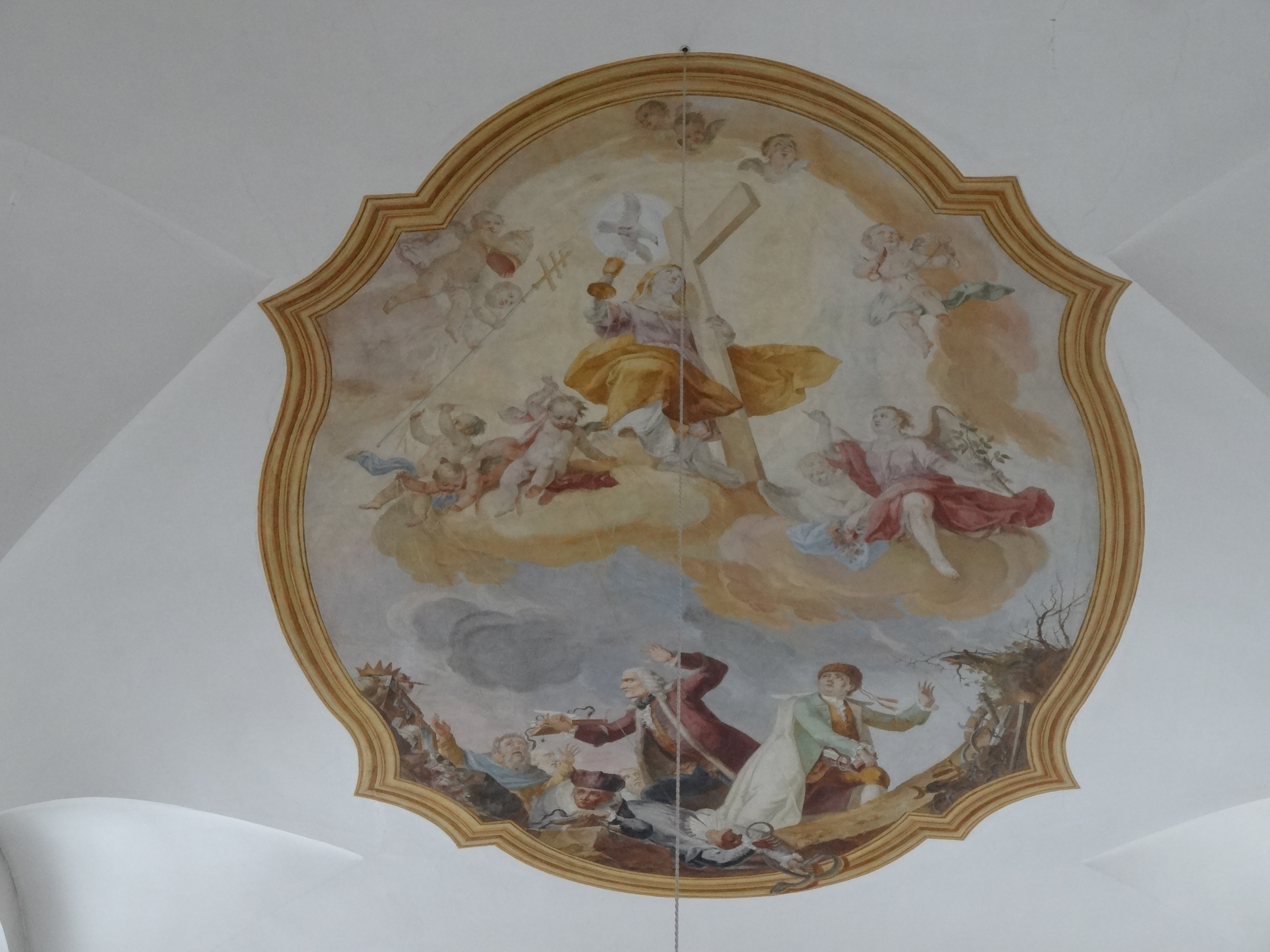 Fresco at Saint Jakobus church in Feusisberg, Switzerland. Allegory of the victory of Ecclesia over heresy, personified trough Voltaire, Rousseau, Zwingli, Calvin, Luther, Arius and Photius. 1785.